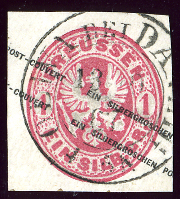 Stamp of Prussia, 1 SilberGroschen, cancelled at OLIVA bei DANZIG in 1867. Pre-stamped envelope fragment Post-couvert.